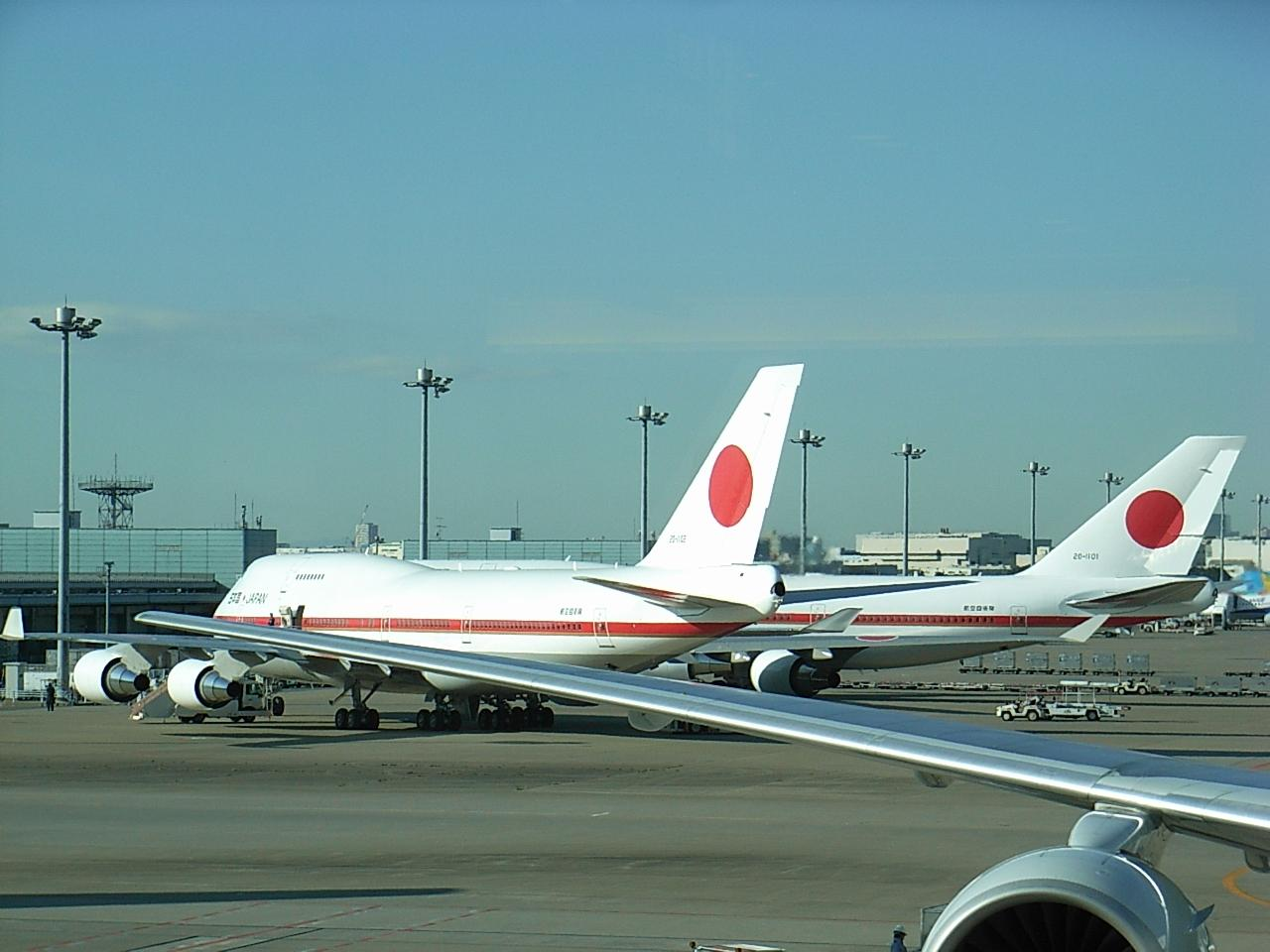 Two Boeing 747 (reg. 20-1101 and 20-1102) of the governement of Japan at Haneda airport. Photo taken from the terminal 2.